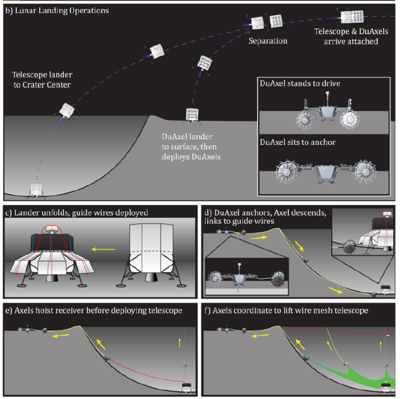 Lunar Crater Radio Telescope illustration.